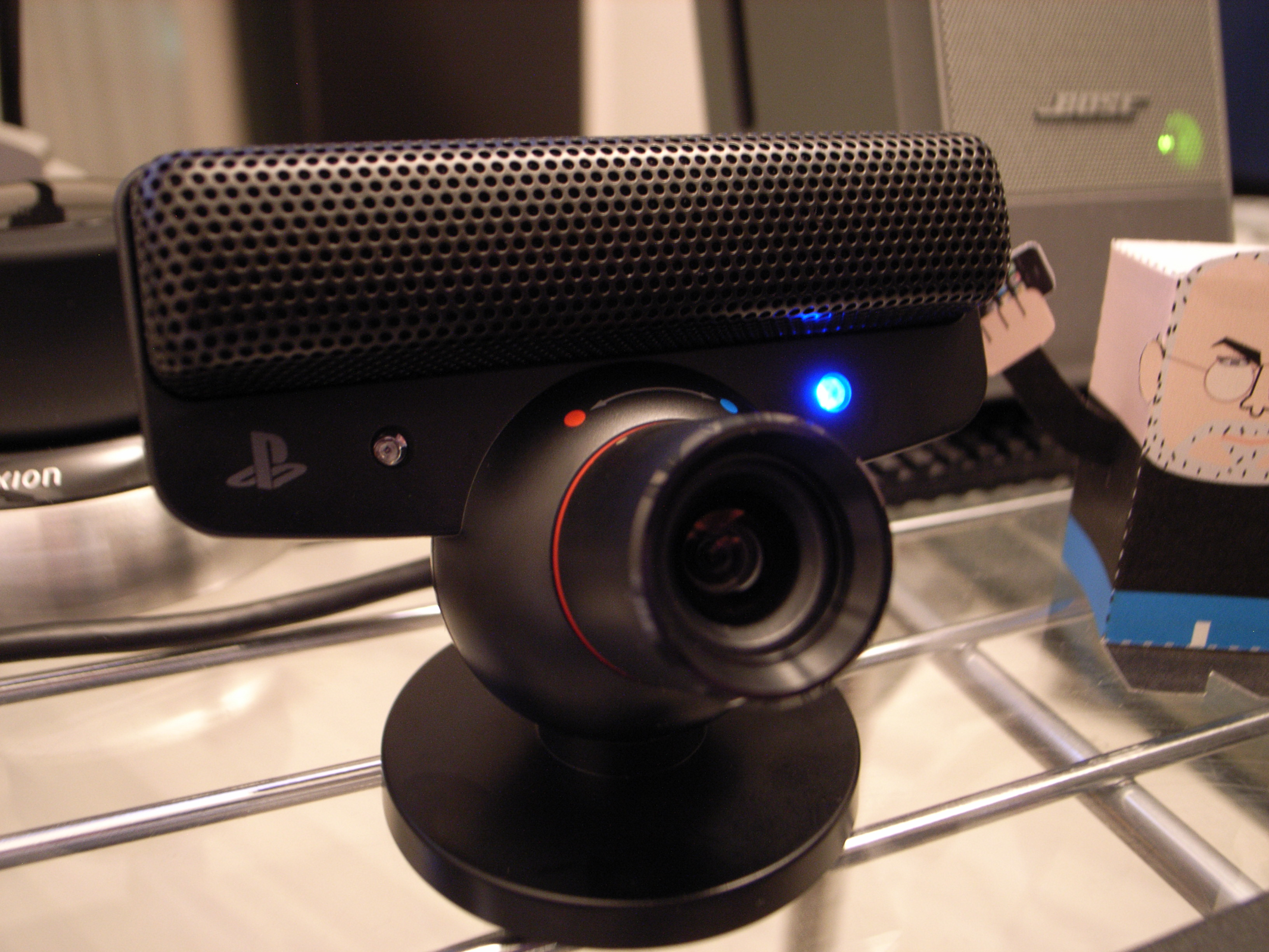 PlayStation Eye